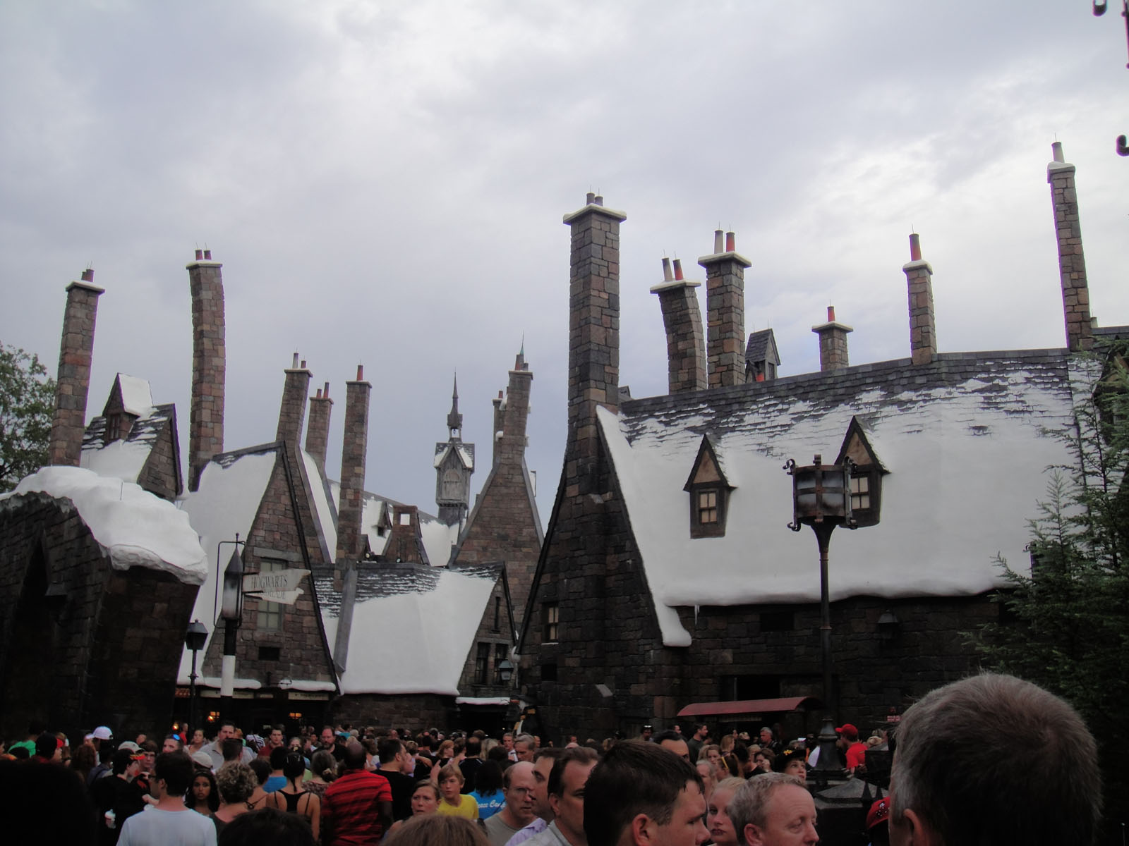 Wizarding World of Harry Potter - Hogsmeade